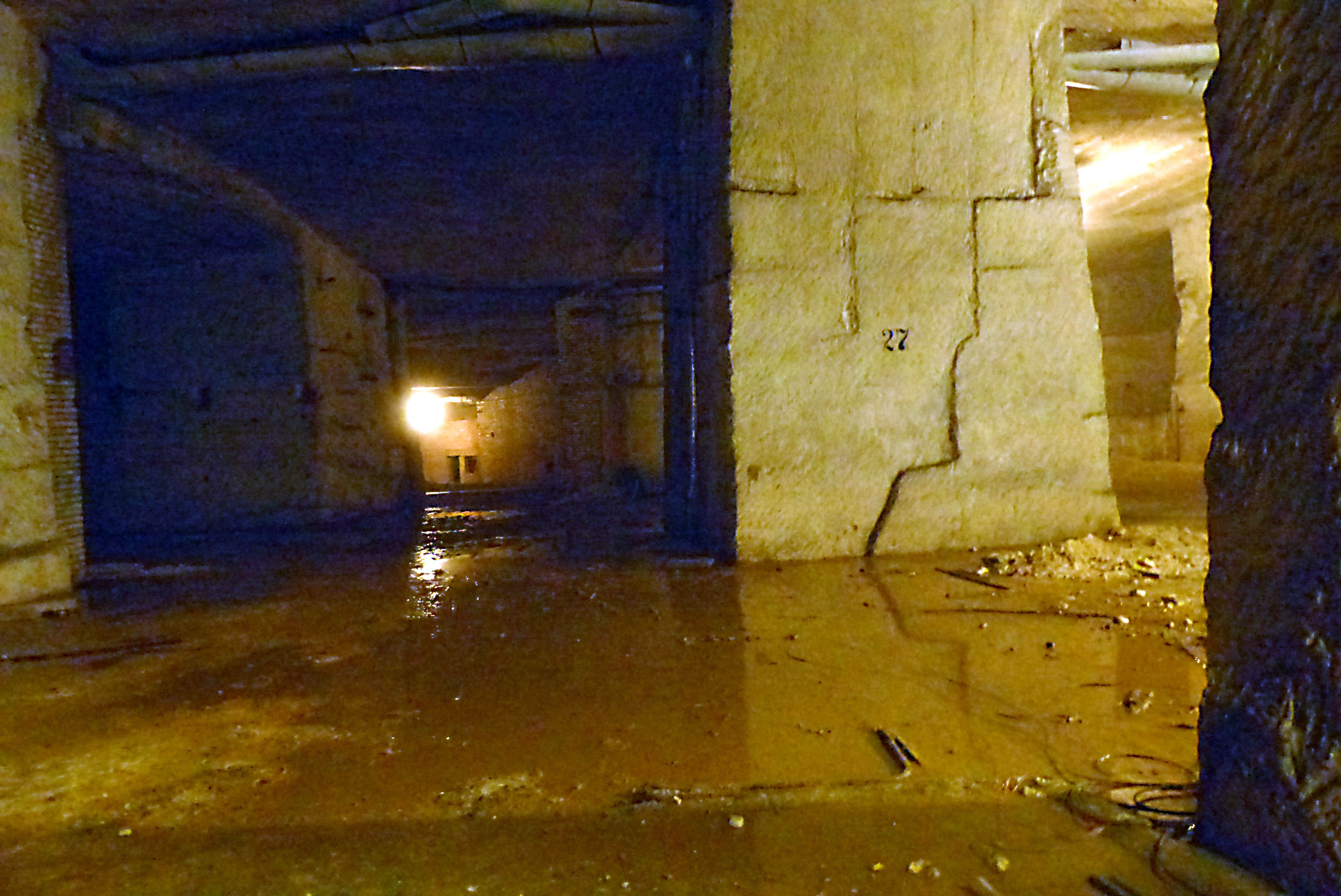 Römersteinbruch in Aflenz an der Sulm